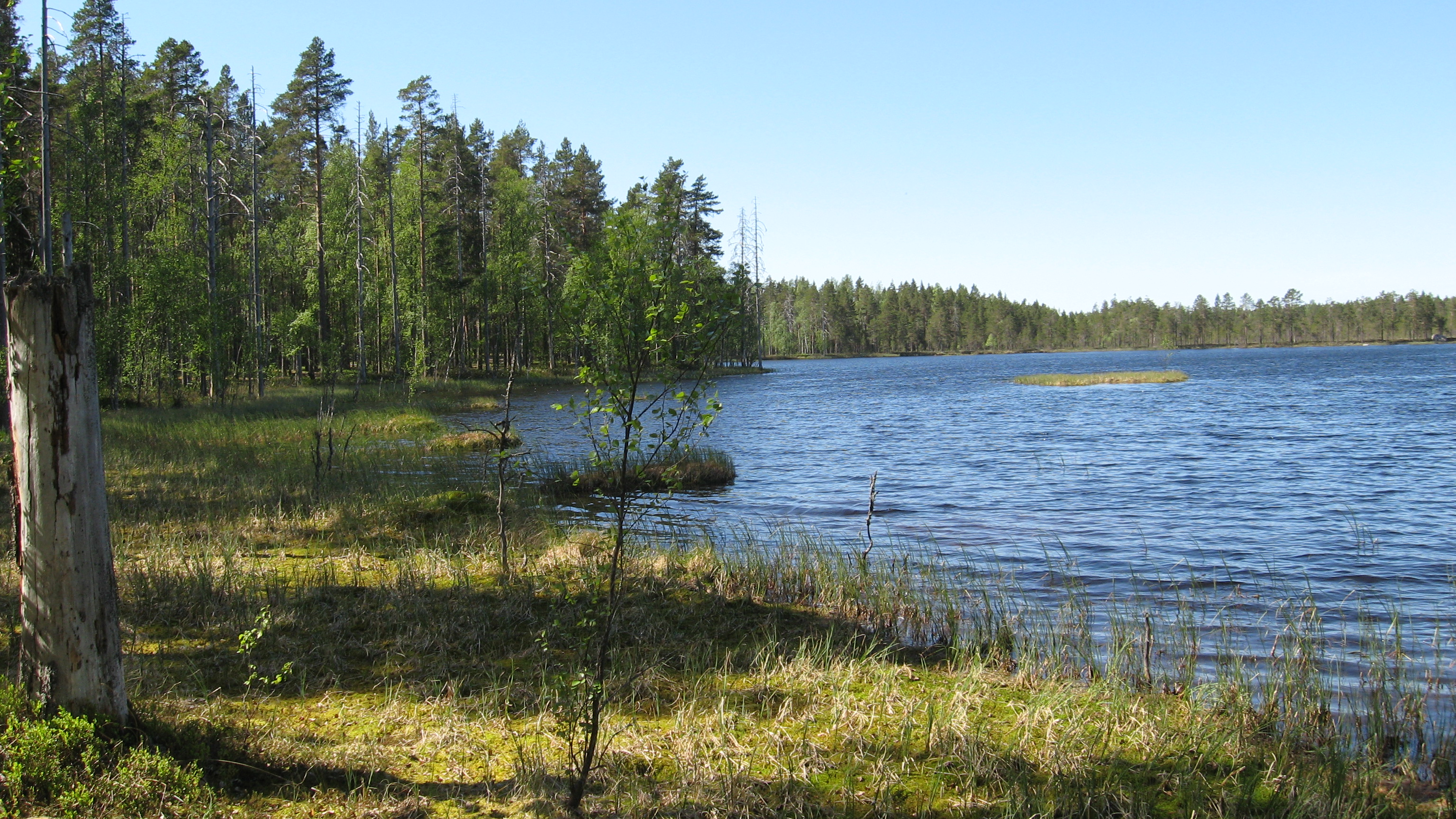 Lake Spitaalijärvi in Lauhanvuori National Park, Isojoki, Finland.